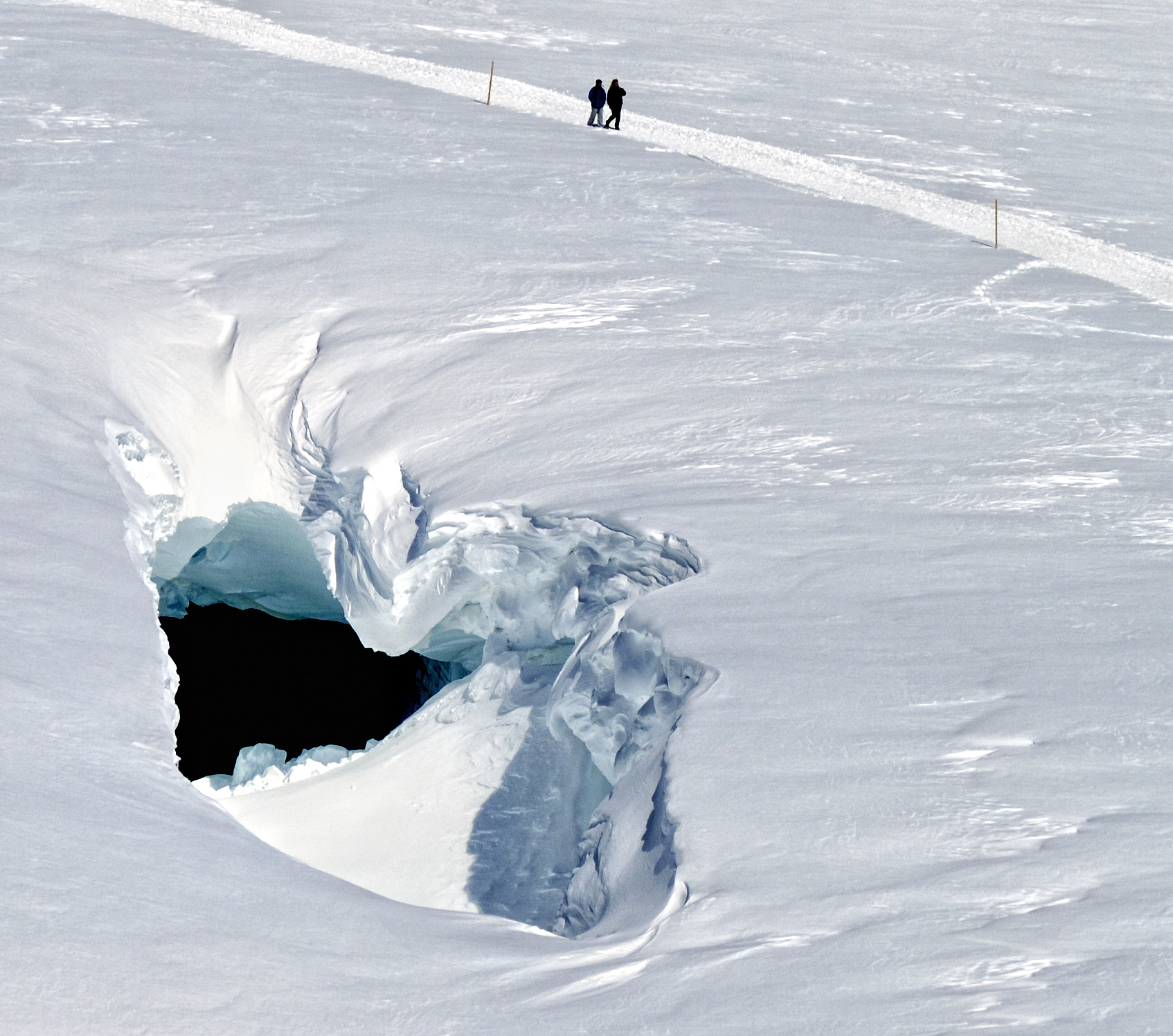 Jungfraujoch (trail to Obermönchsjochhütte)